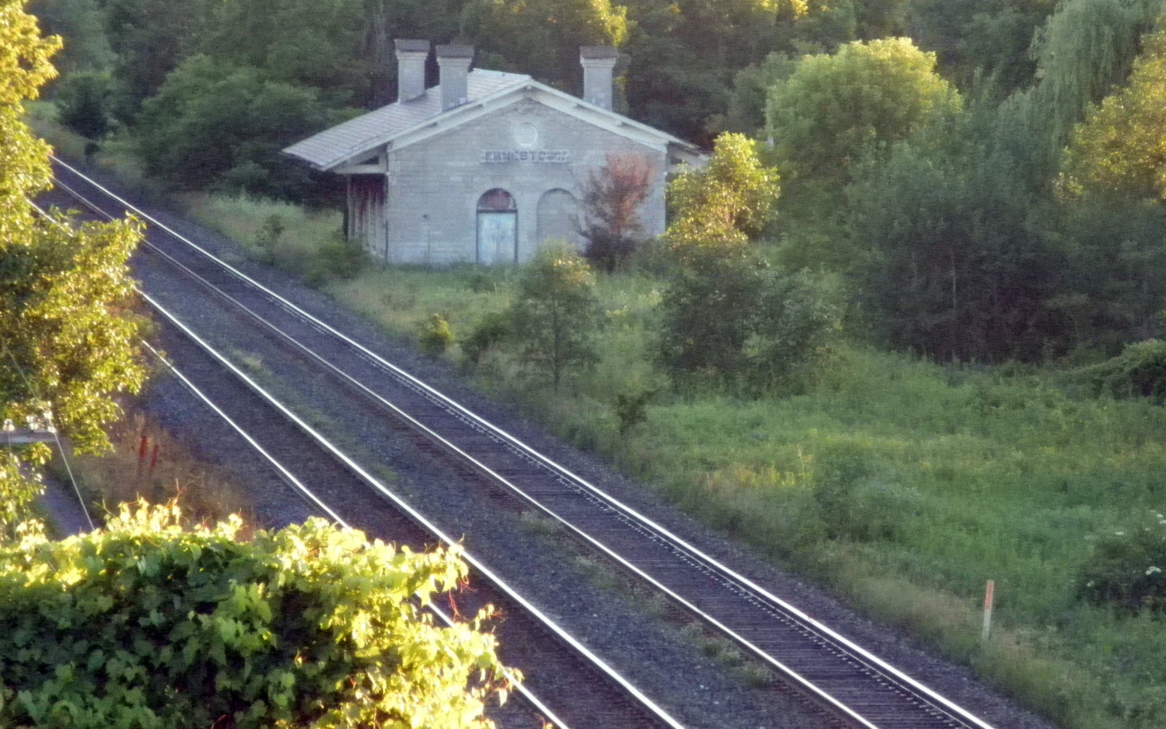 Limestone 'type c' wayside station, Grand Trunk Railway (1856), 188 miles west of Montréal. On northwest corner of old Camden East Road and GTR mainline (CN Kingston Subdivision).